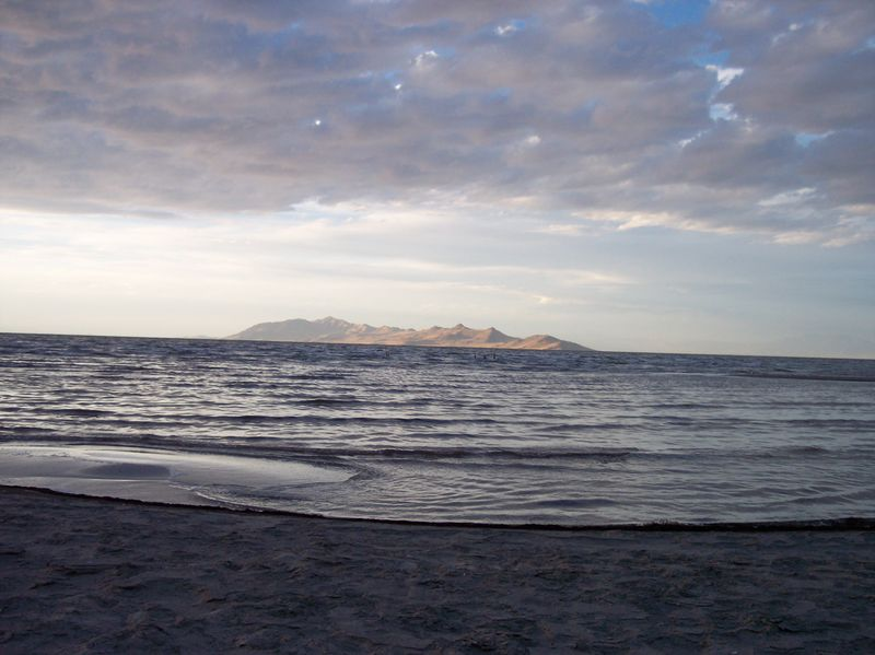 The Great Salt Lake as seen looking north towards Antelope Island from Sunset Beach. Picture by Drax Felton.